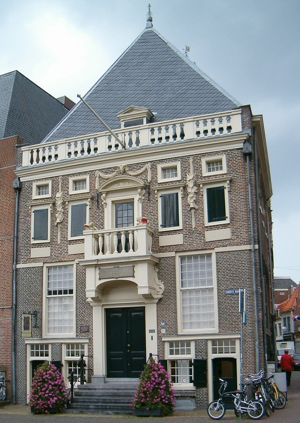 Hoofdwacht Haarlem. Picture taken by Guus Bosman on September 14th, 2004. I took the picture myself.